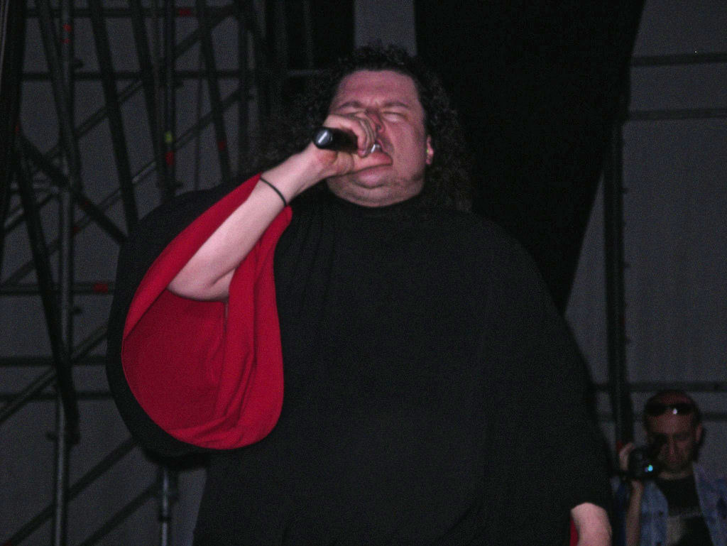 Messiah Marcolin, vocalist of Swedish Heavy metal band Candlemass